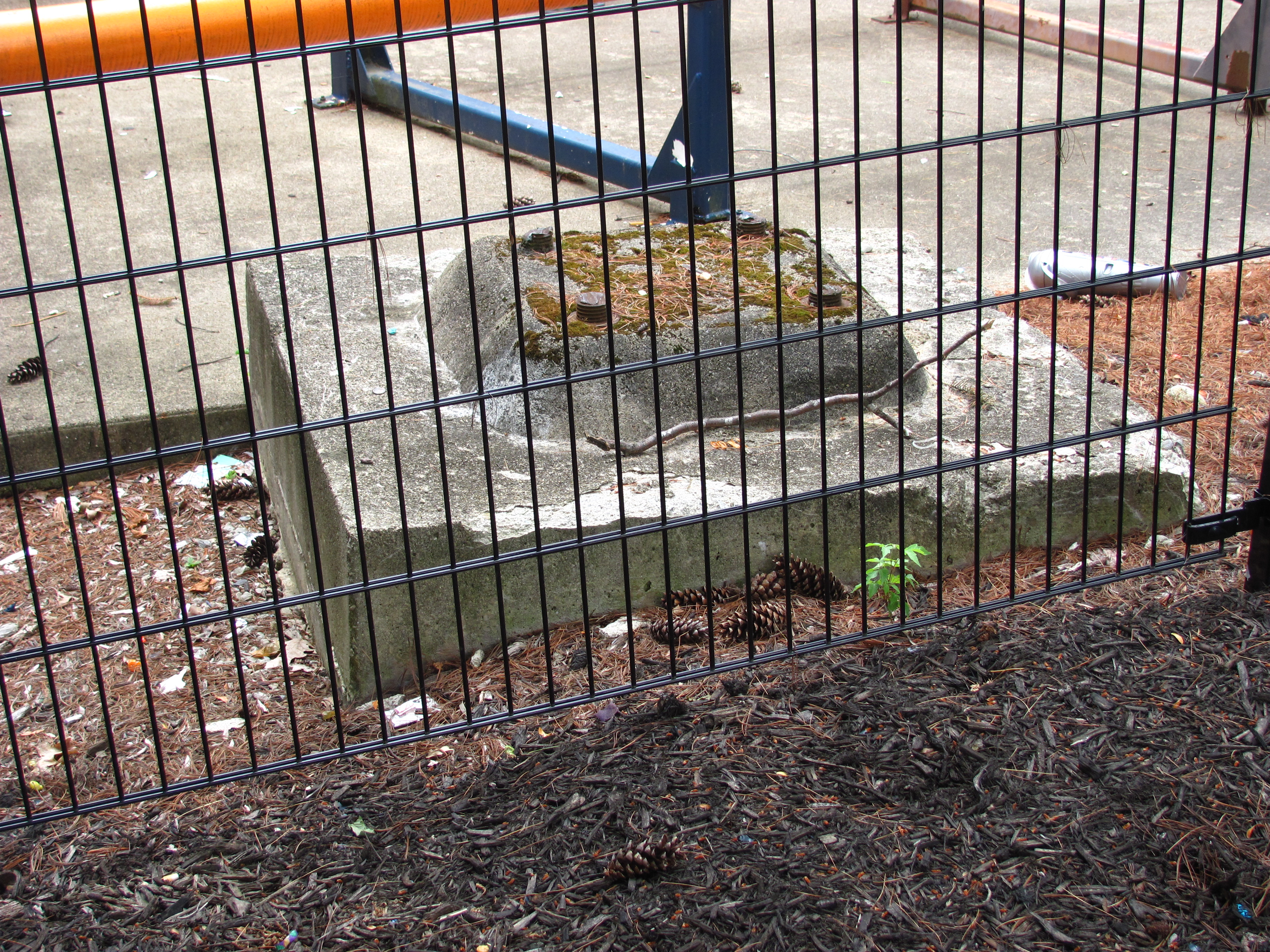 Old footer from The Bat